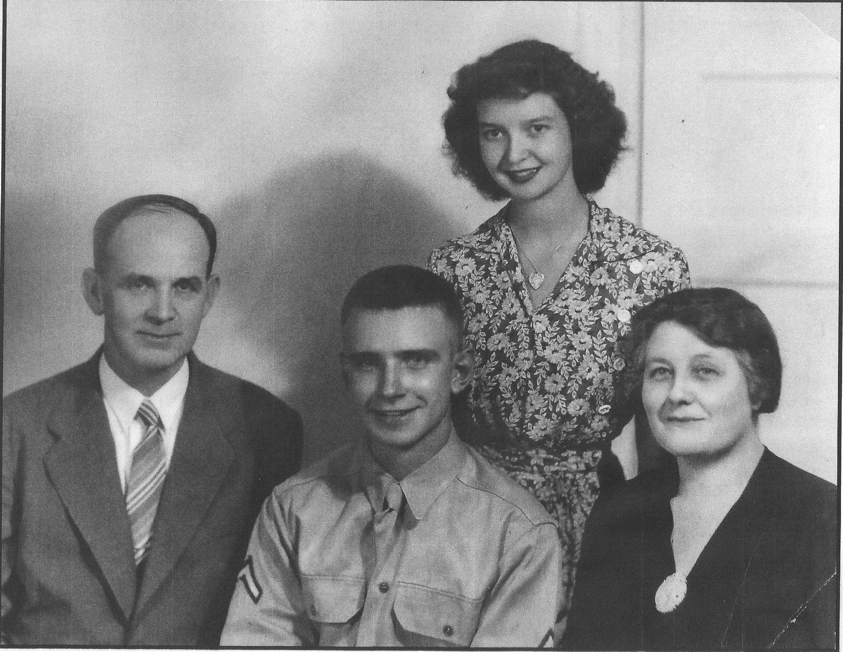 Sone family - about 1944